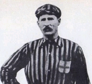 Herbert Kilpin - założyciel Milanu Herbert Kilpin - father of A.C. Milan